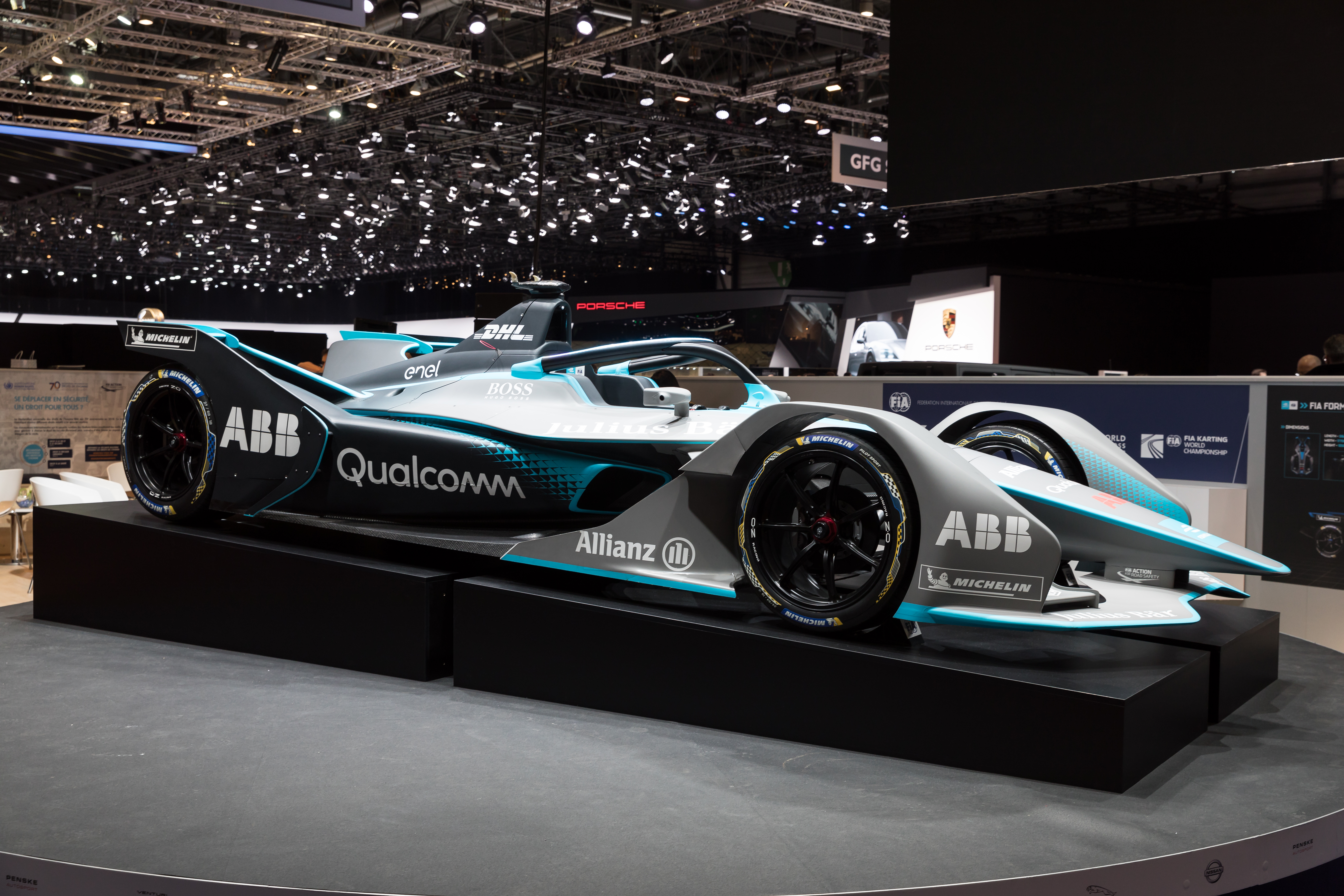 Geneva International Motor Show 2018